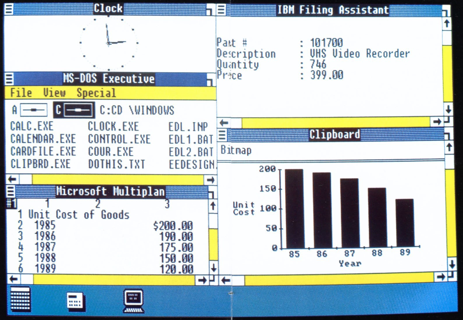 Windows 1.0 was released on November 20, 1985 as the first version of the Microsoft Windows line.